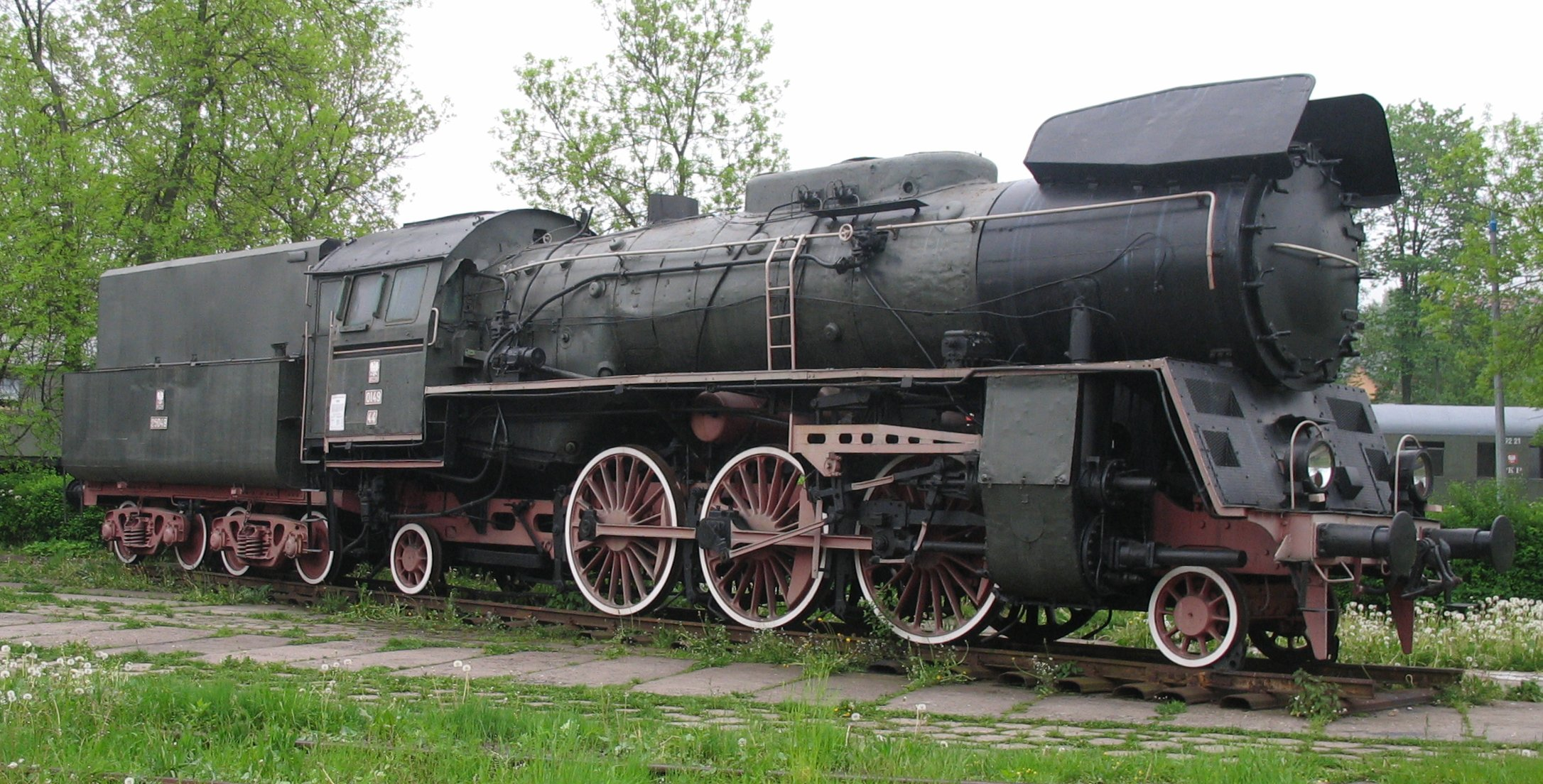 Polish passenger locomotive Ol49-44. The railway museum in Chabówka, Poland